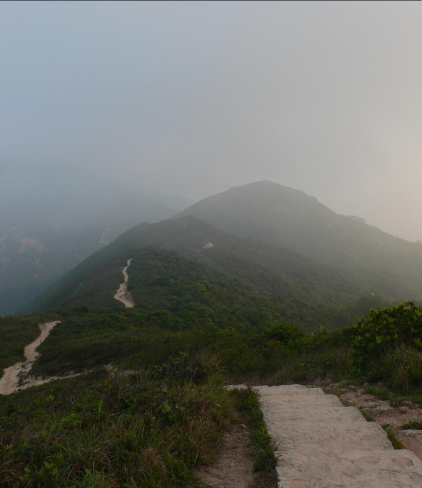 Dragon Back, a trail in Shek O Country Park, which is in the Southern District in Hong Kong